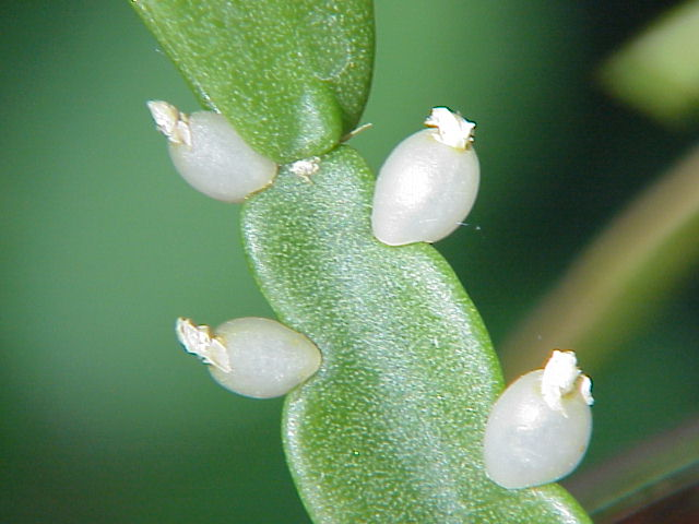 Species: Rhipsalis micrantha Family: ' Image No. 1